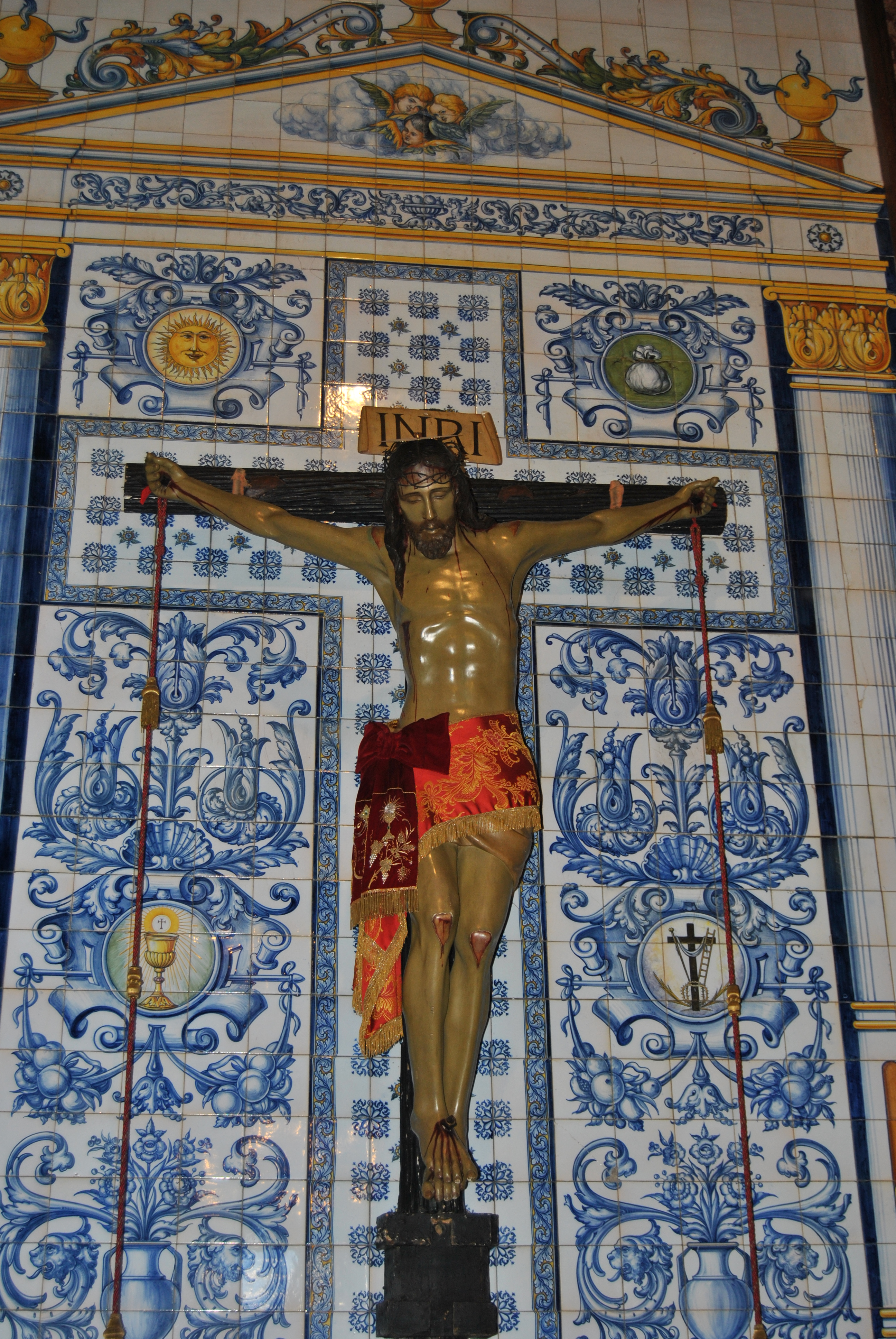 Imagen del Santísimo Cristo de Valdelpozo